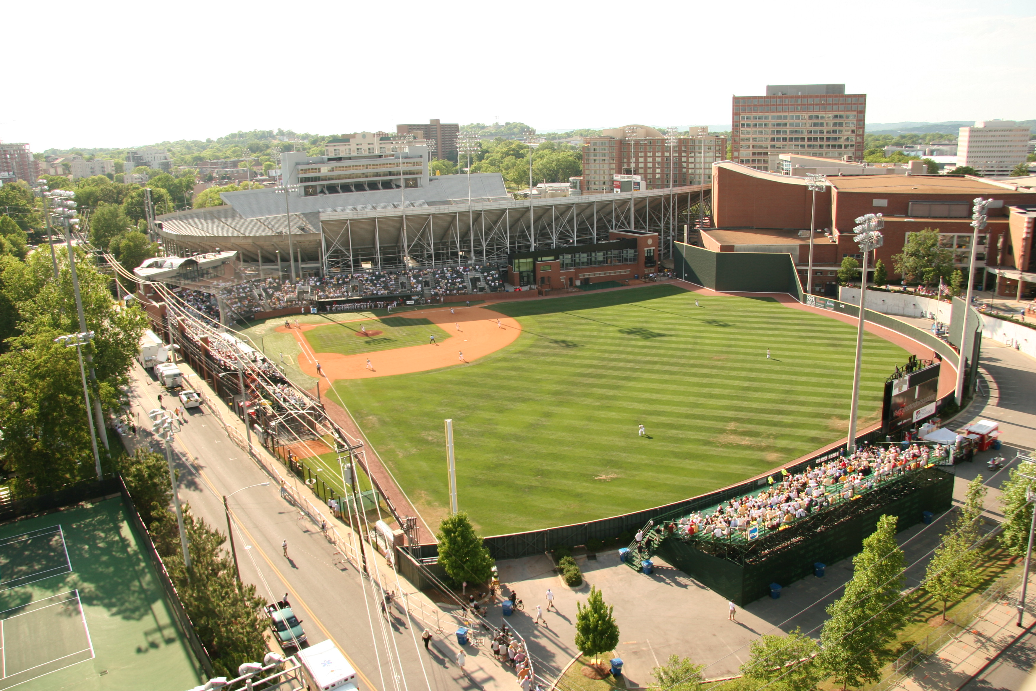 Hawkins Field on June 3, en:2007 during NCAA tournament regionals. Memorial Gym and Vanderbilt Stadium can be seen in the background on Vanderbilt's campus in Nashville.